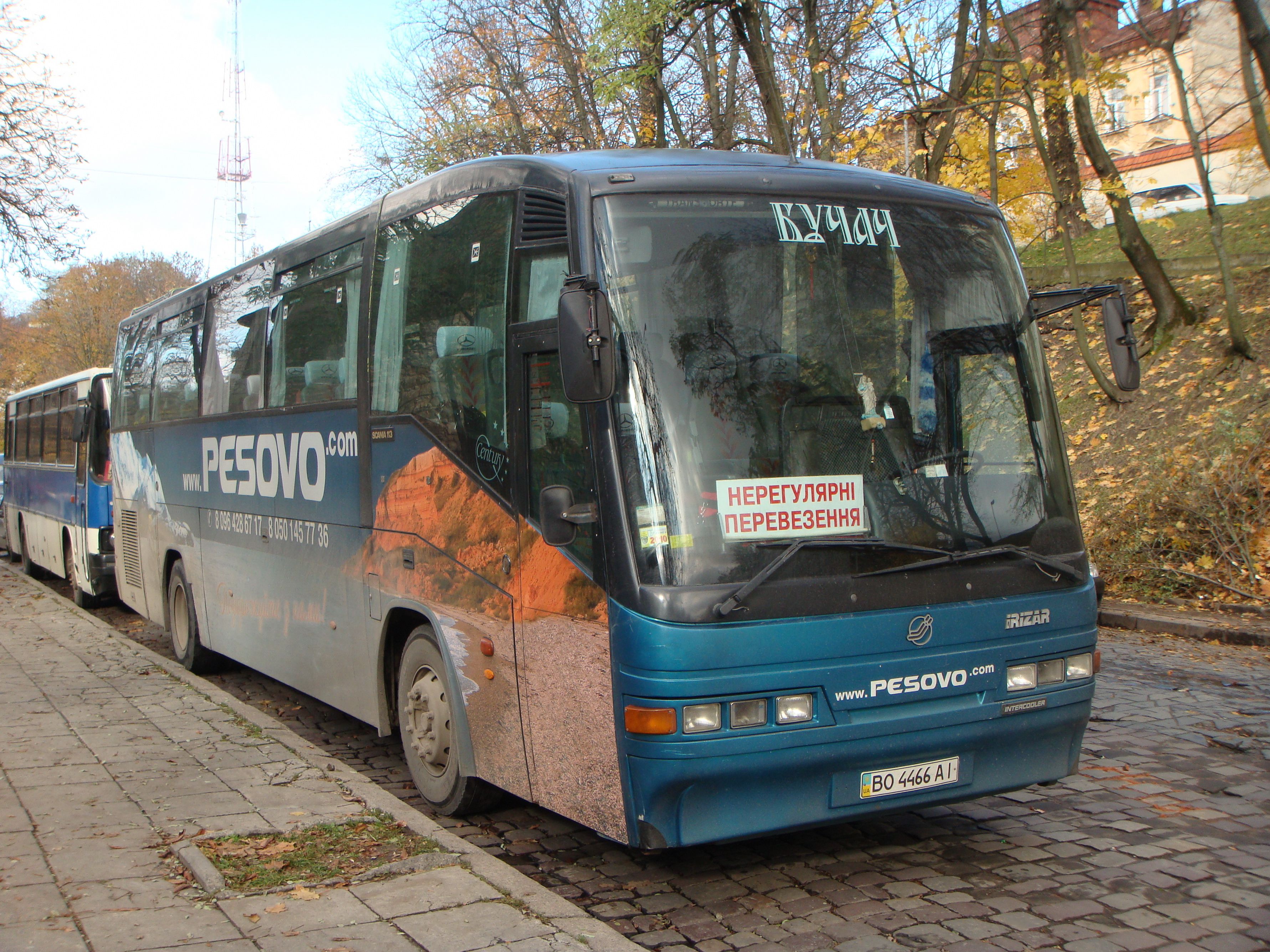 Irizar Century bus (BO 4466 AI) with Scania 113 chassis in Lviv, Ukraine. Pesovo operator.